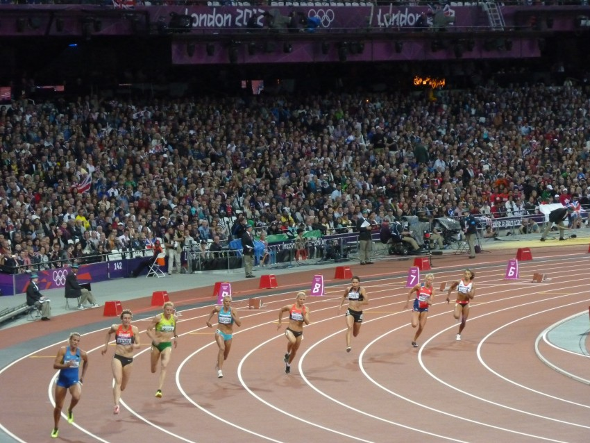 Olympic Stadium, Friday 3 August, London Olympic Games, Nataliya Dobrynska, Julia Mächtig, Austra Skujyte, Irina Karpova, Lilli Schwarzkopf, Sarah Cowley, Ida Marcussen, Louise Hazel